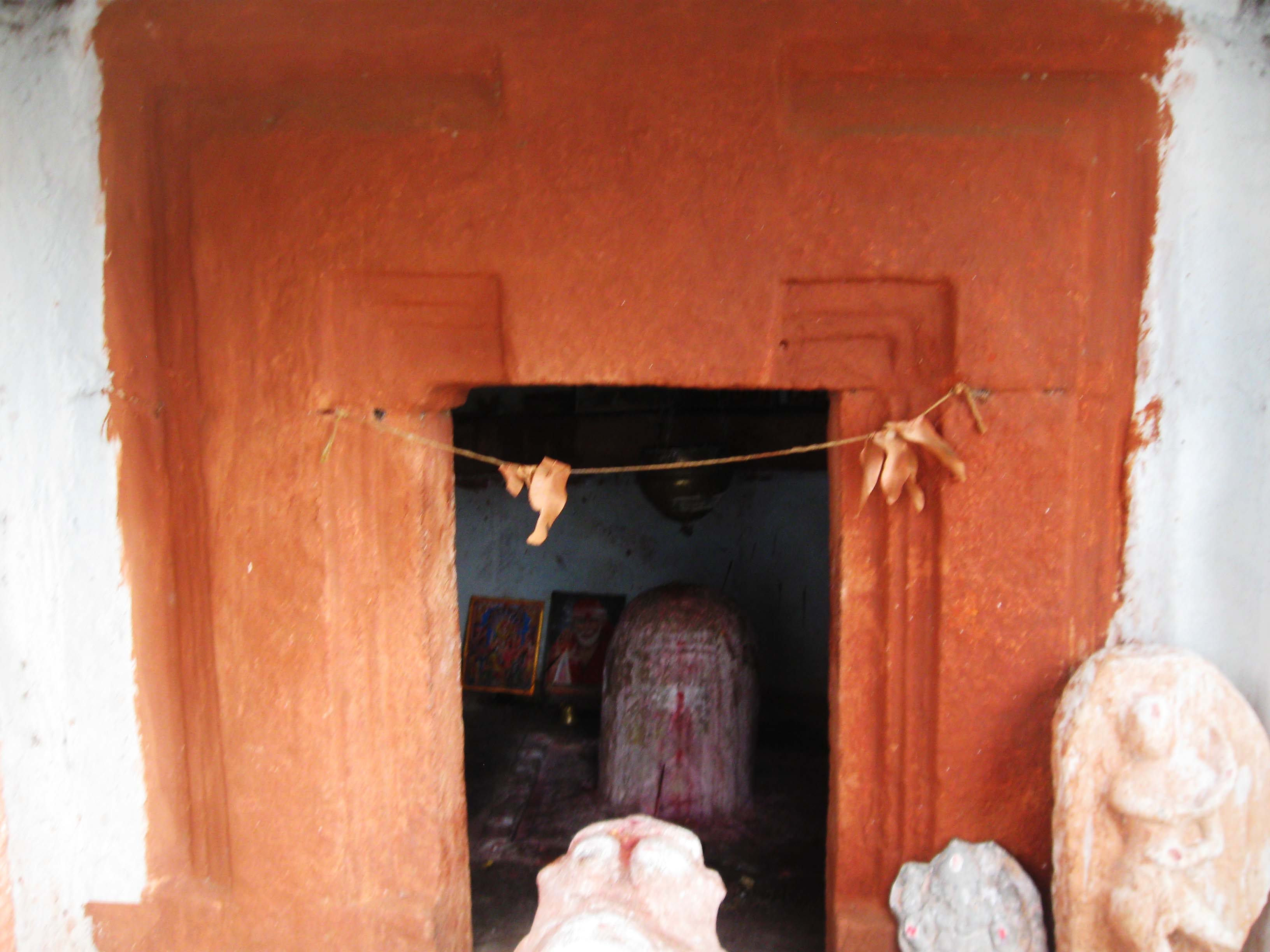 శివాలయం